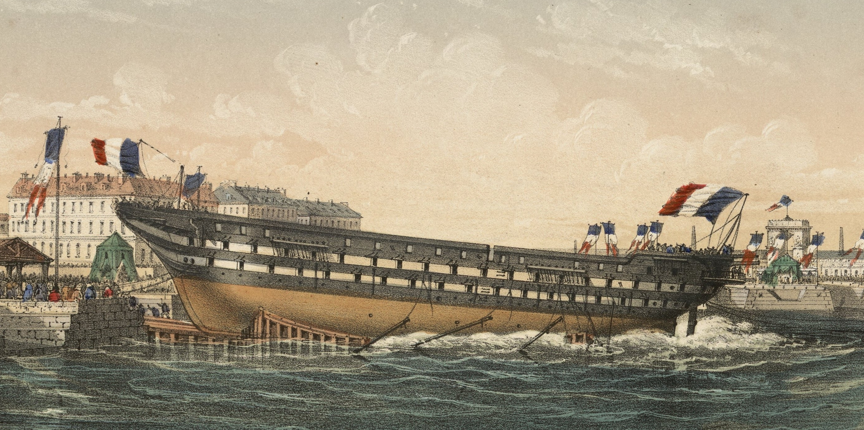 Launching of the 90-gun ship of the line Ville de Nantes before Napoléon III.